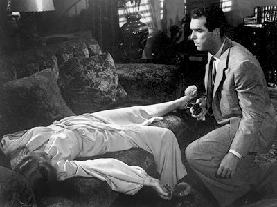 Promotional still from the 1944 film Double Indemnity